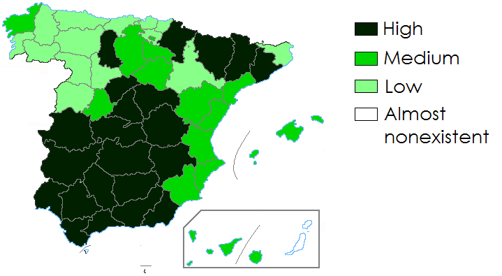 Bullrunners in Spain at 19th century